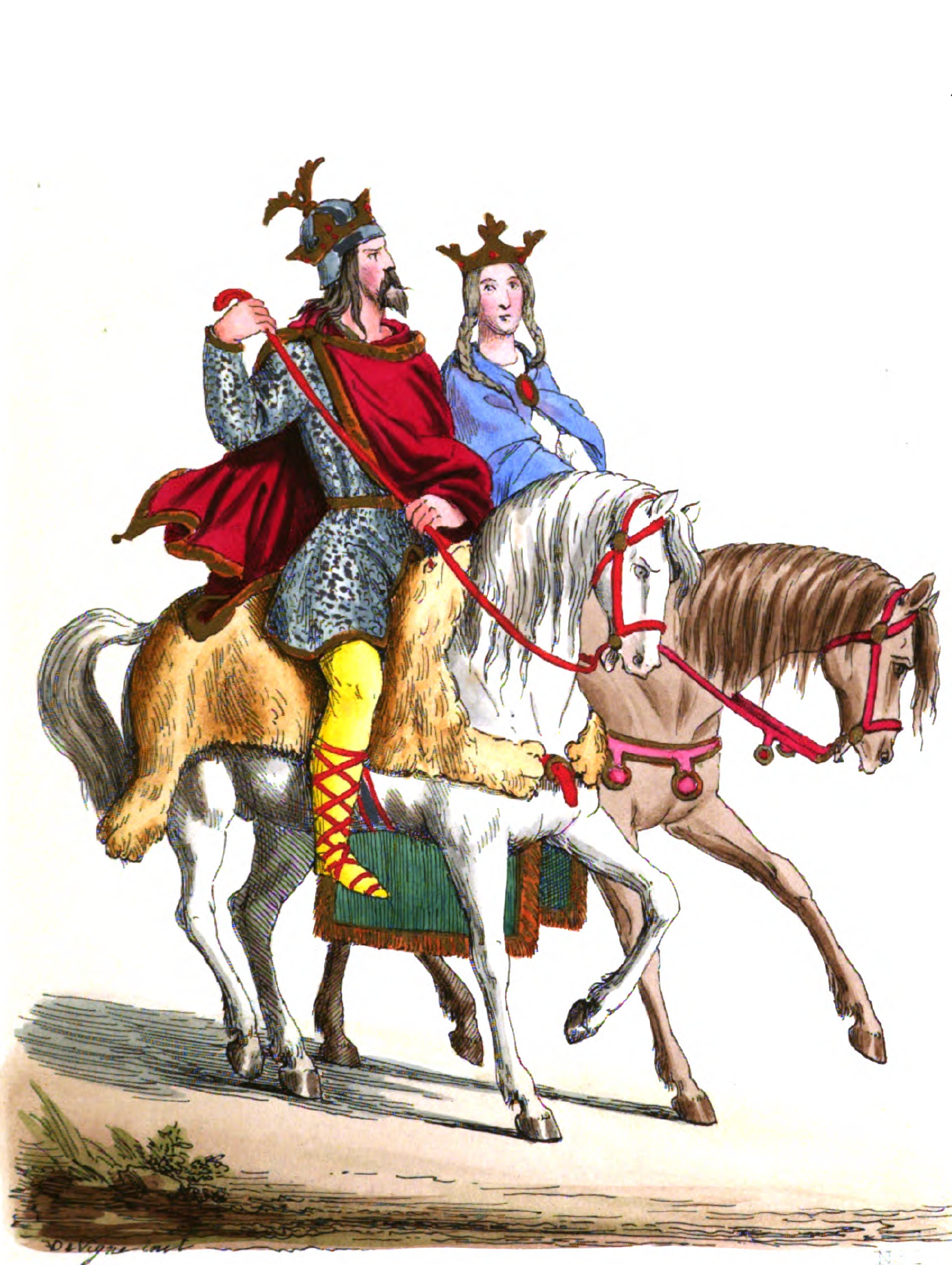 Balduin and Judith